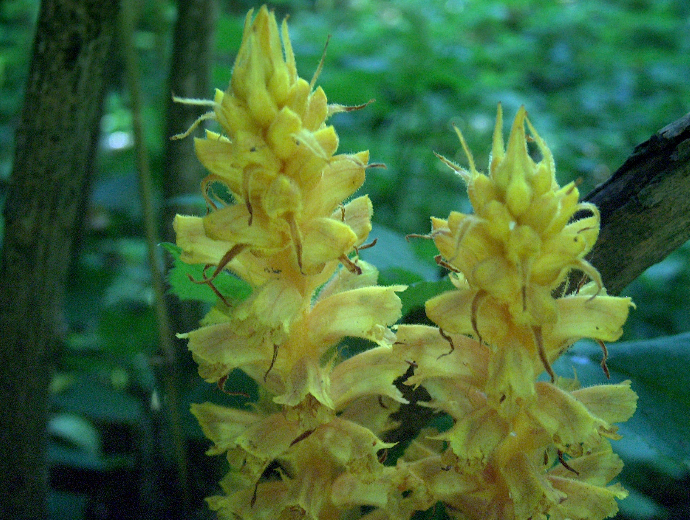 Orobanche lucorum - Flowers - University of Helsinki Botanical Garden, Finland